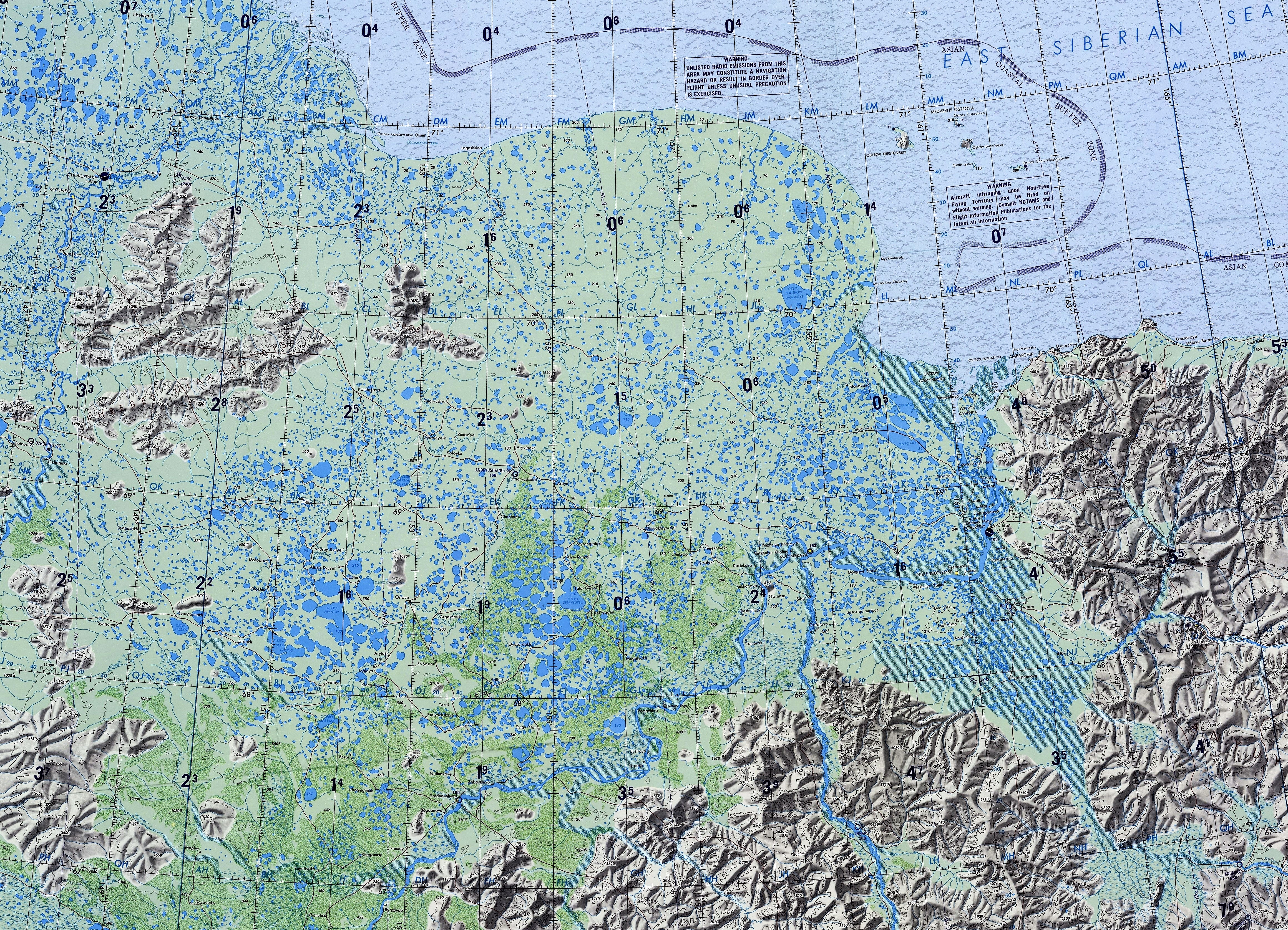 Map section showing the Kolyma Lowland. Sakha (Yakutia), Russia